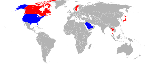 Blue indicates current military operators of the CH-46 Sea Knight helicopter. Red indicates former operators.